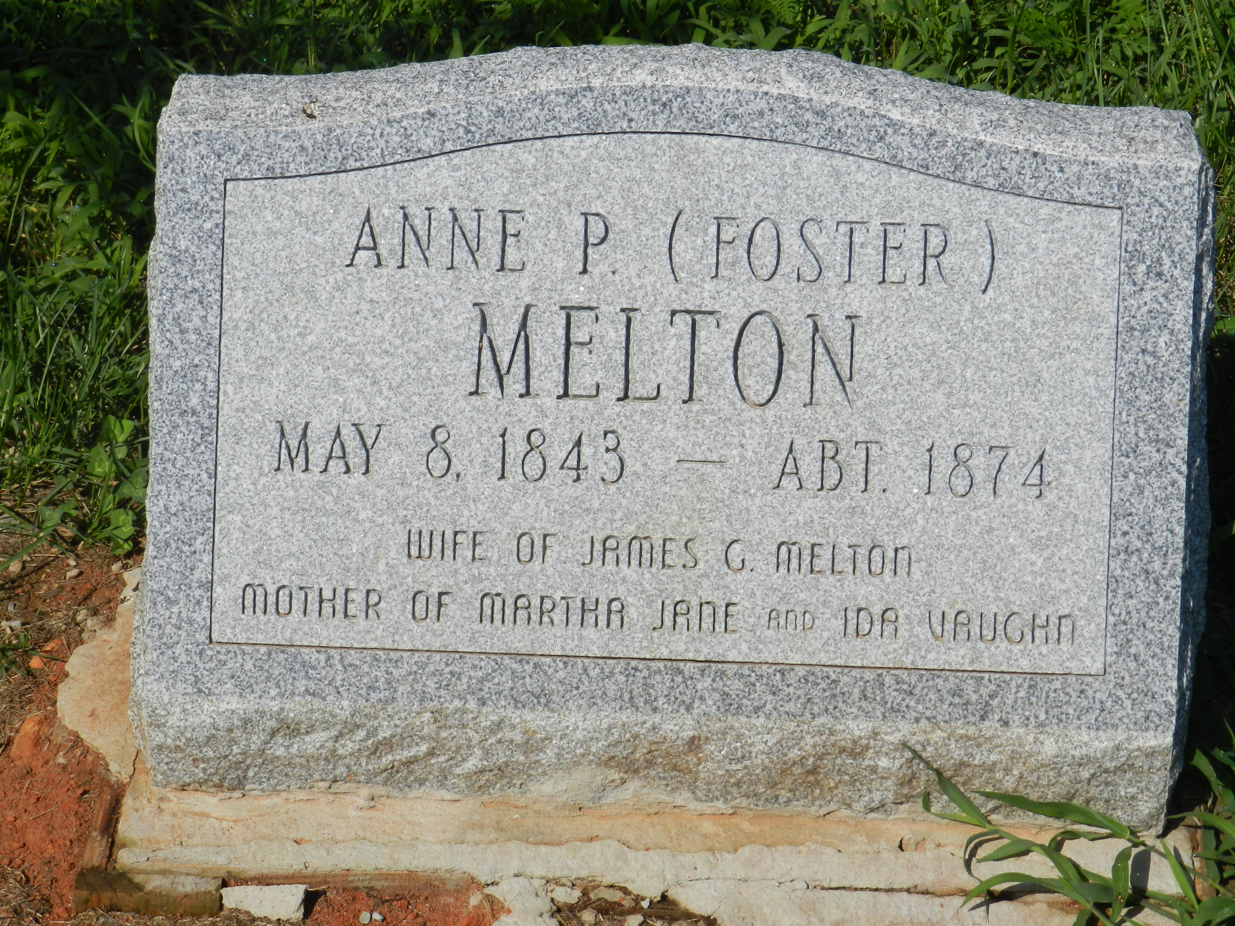 The greavestone of Ann Melton in North Carolina. The grave is close to Gladys Fork Road in Ferguson, Wilkes County.Ann Melton was accused of being accomplish to the murder of Laura Foster by Tomn Dooley.